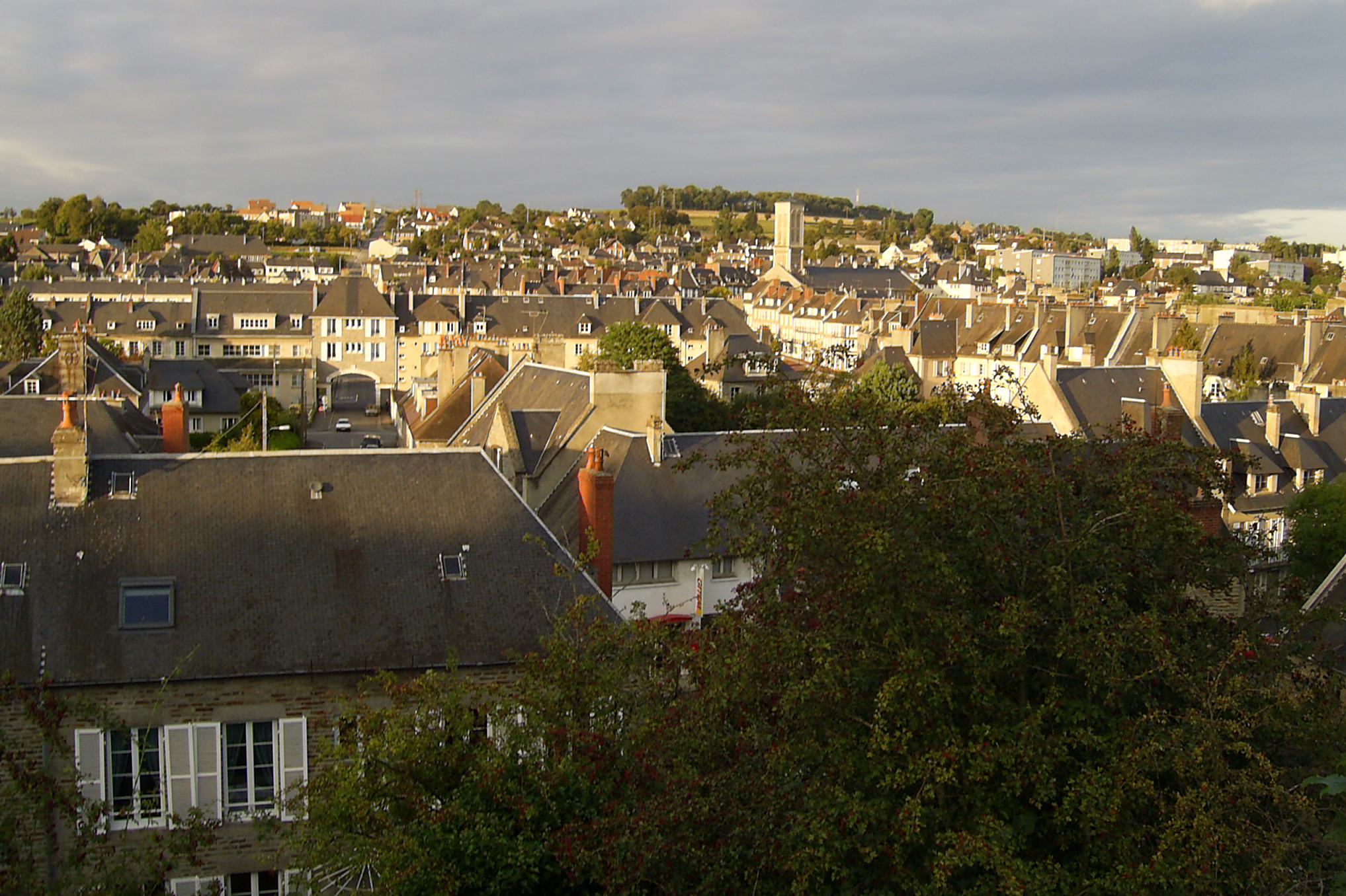 View of Condé sur Noireau